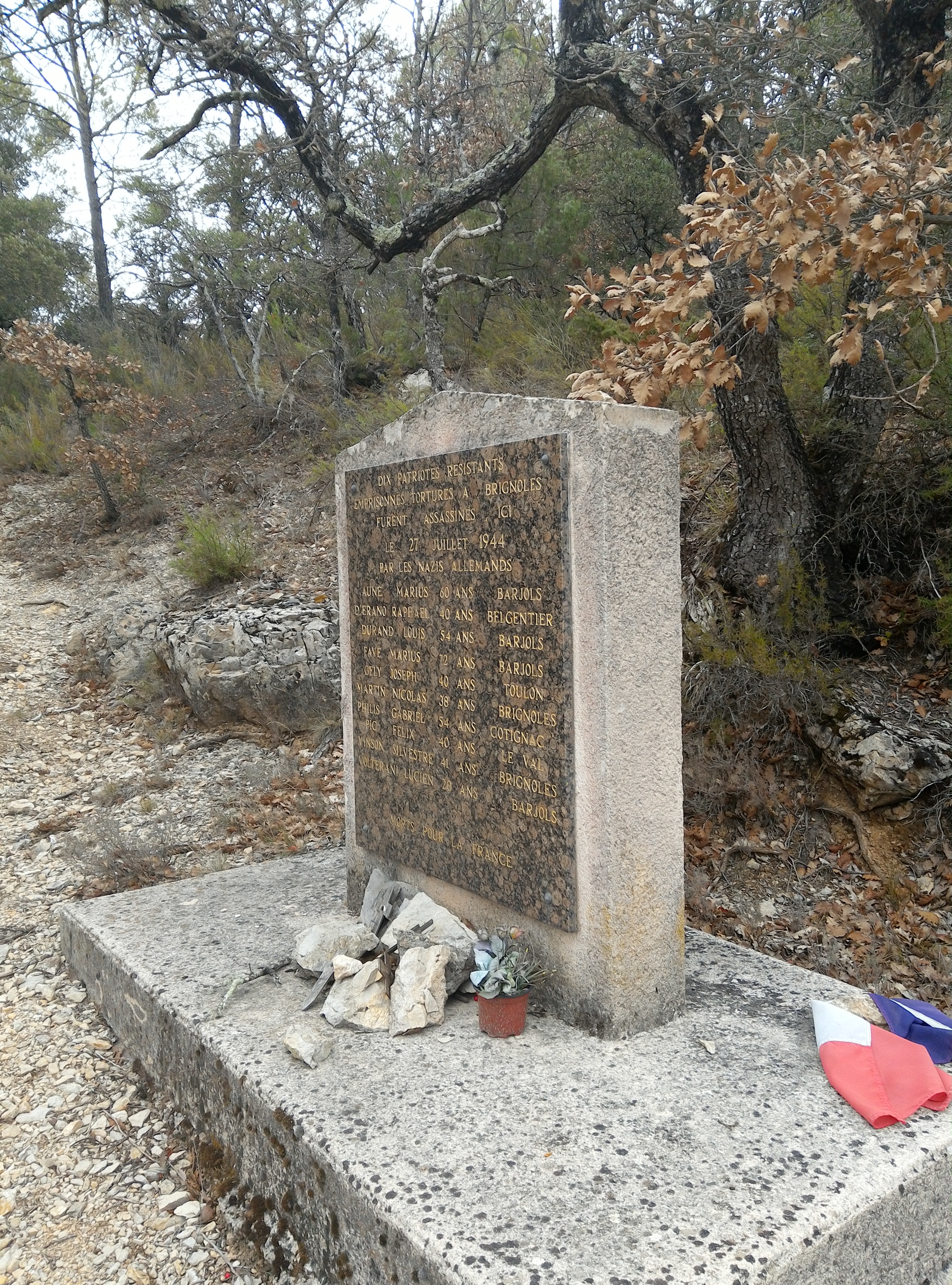 War memorial in Département Var